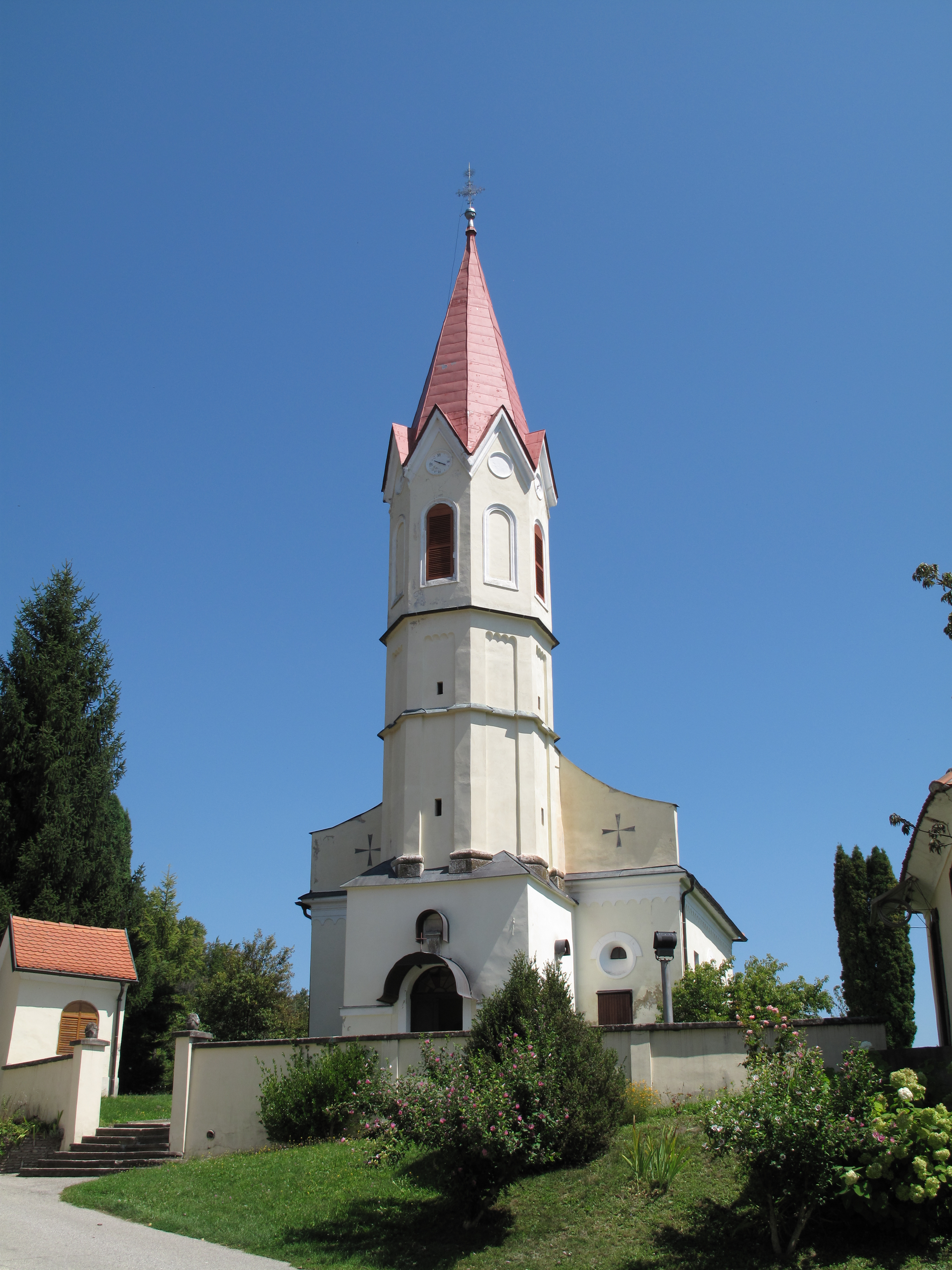 Saint Martin Church, Sromlje